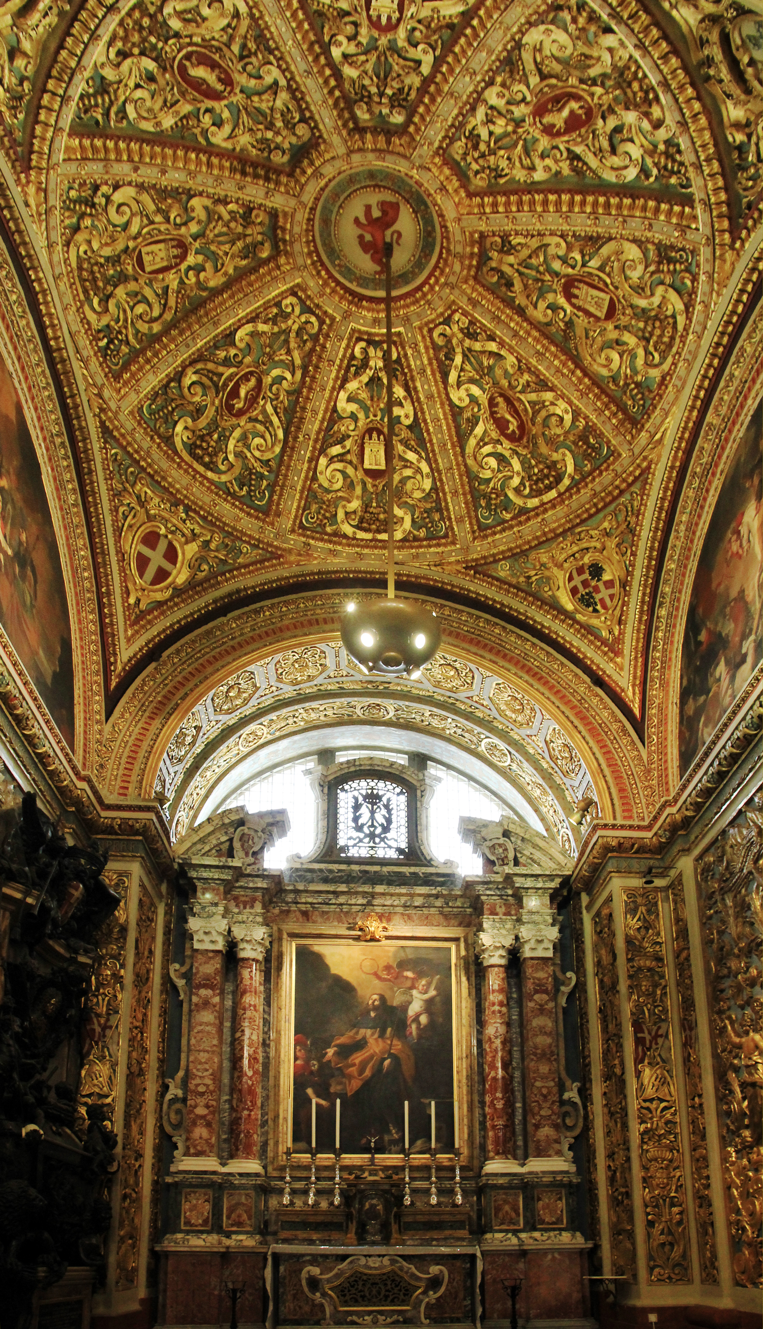 Interior of St. John's Co-Cathedral in Valletta, Malta